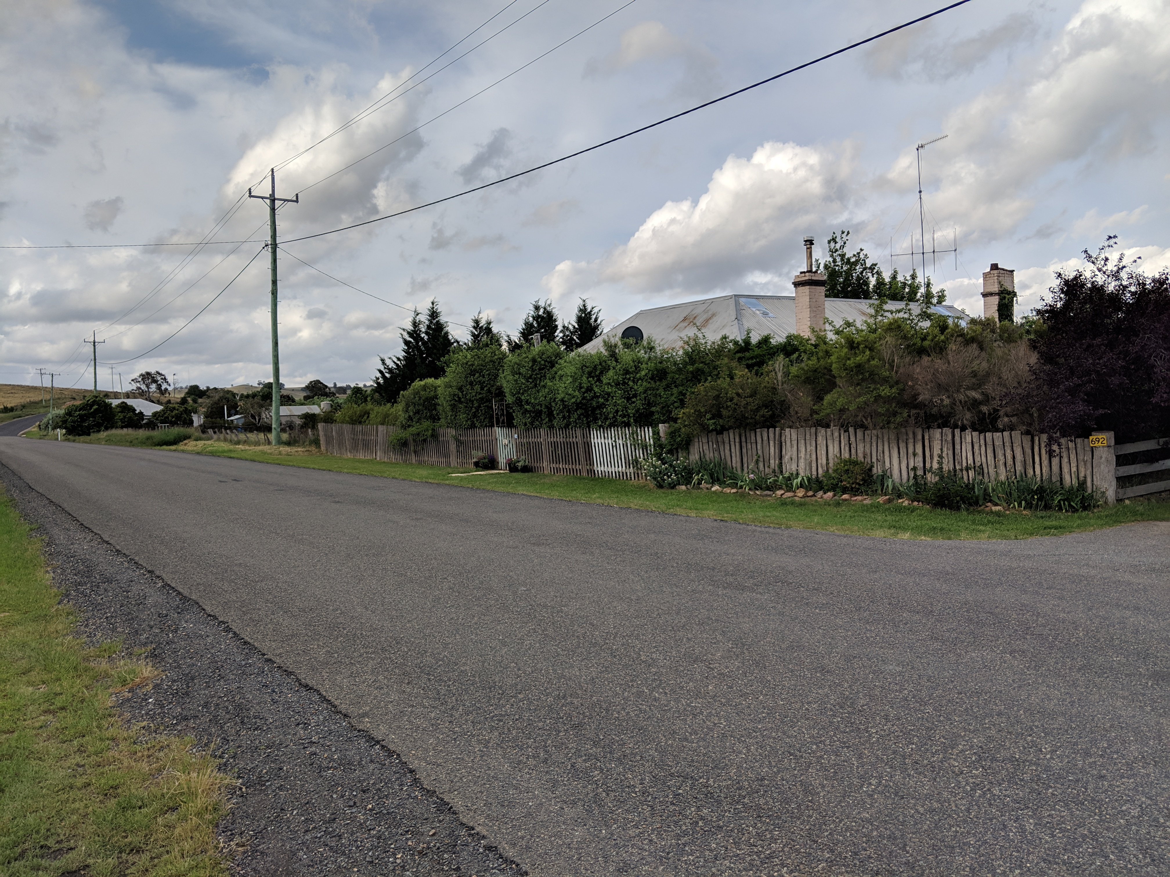 Main street, Woodhouselee, New South Wales